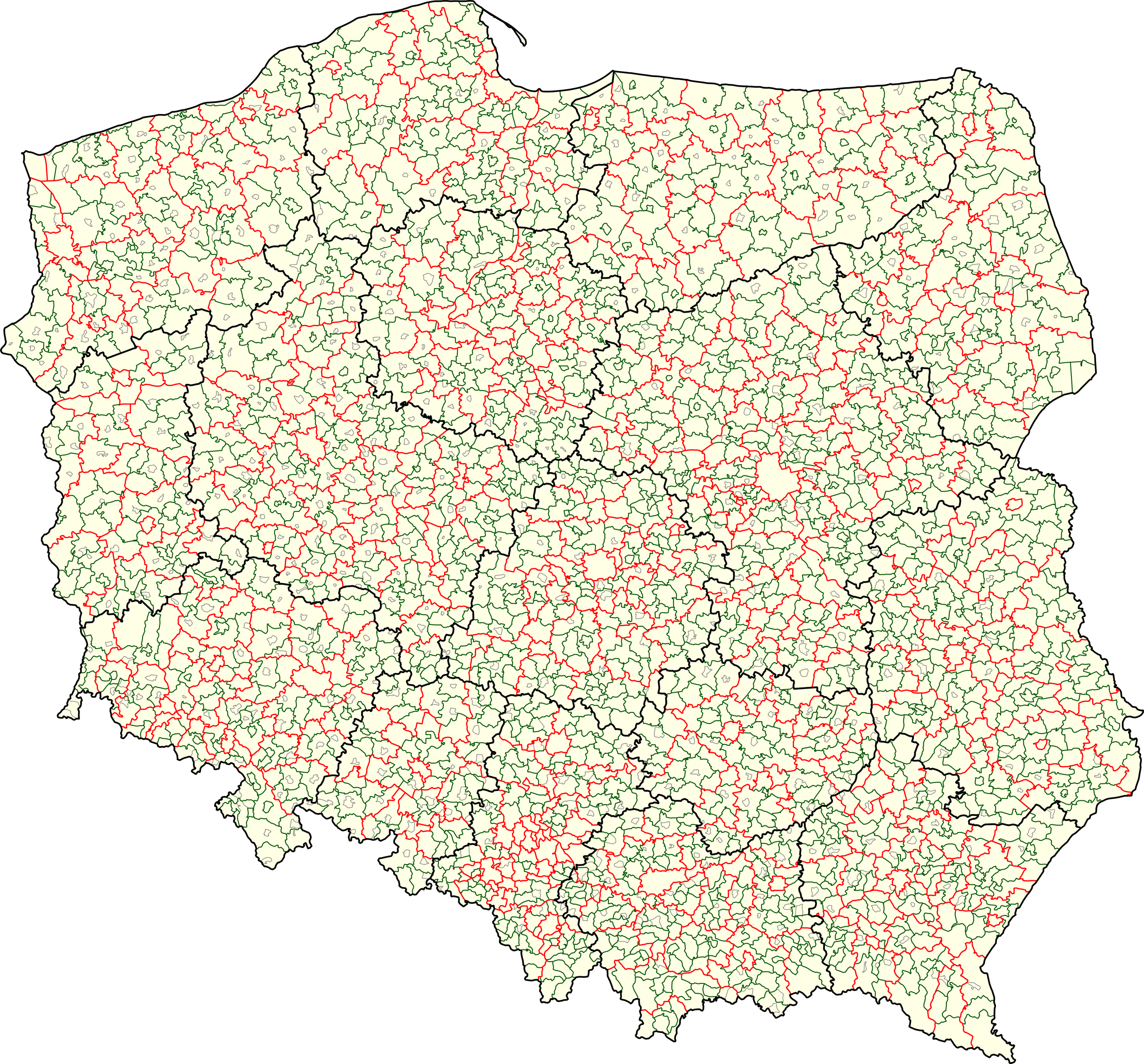 Administrative map of Poland with boundaries of voievodships (black), counties (red), communes (green) as well as towns in urban-rural communes (grey), as of January 1, 2013